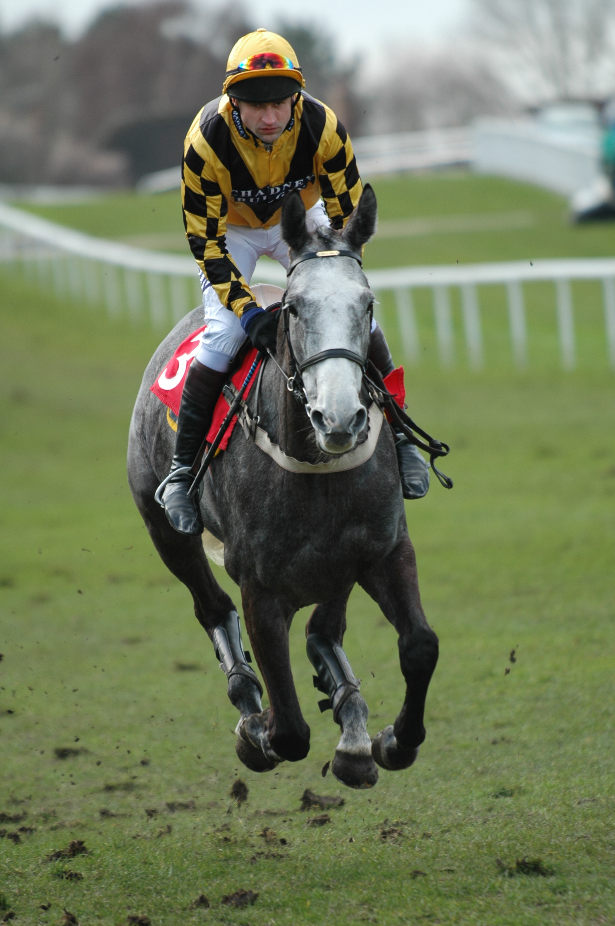 A rider in the first race at Sandown Park